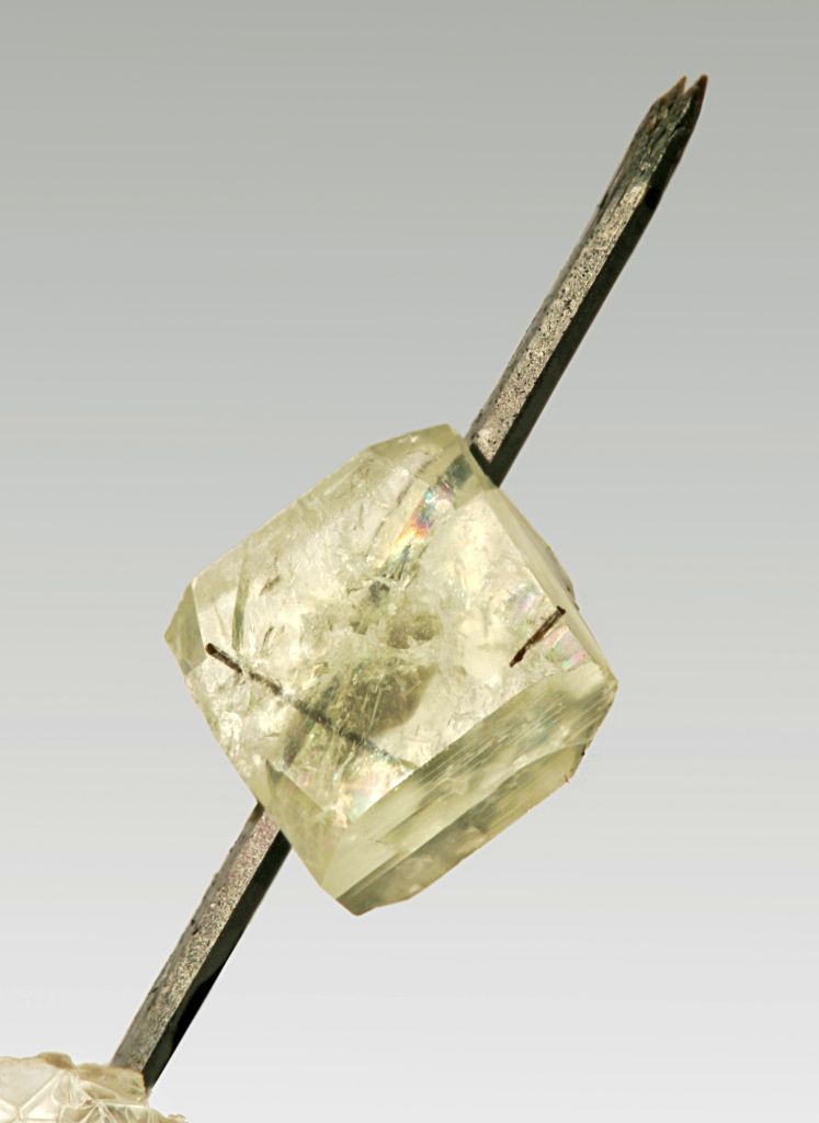 Leucophanite, Aegirine Locality: Poudrette quarry (Demix quarry; Uni-Mix quarry; Desourdy quarry; Carrière Mont Saint-Hilaire), Mont Saint-Hilaire, La Vallée-du-Richelieu RCM, Montérégie, Québec, Canada The leucophanite is about 4-5 mm on edge. Via Jean-Pierre Beckerich. MOB coll. This is from a well known find that produced considerably larger gemmy xls - see Min Rec 7-8/1990 p. 320